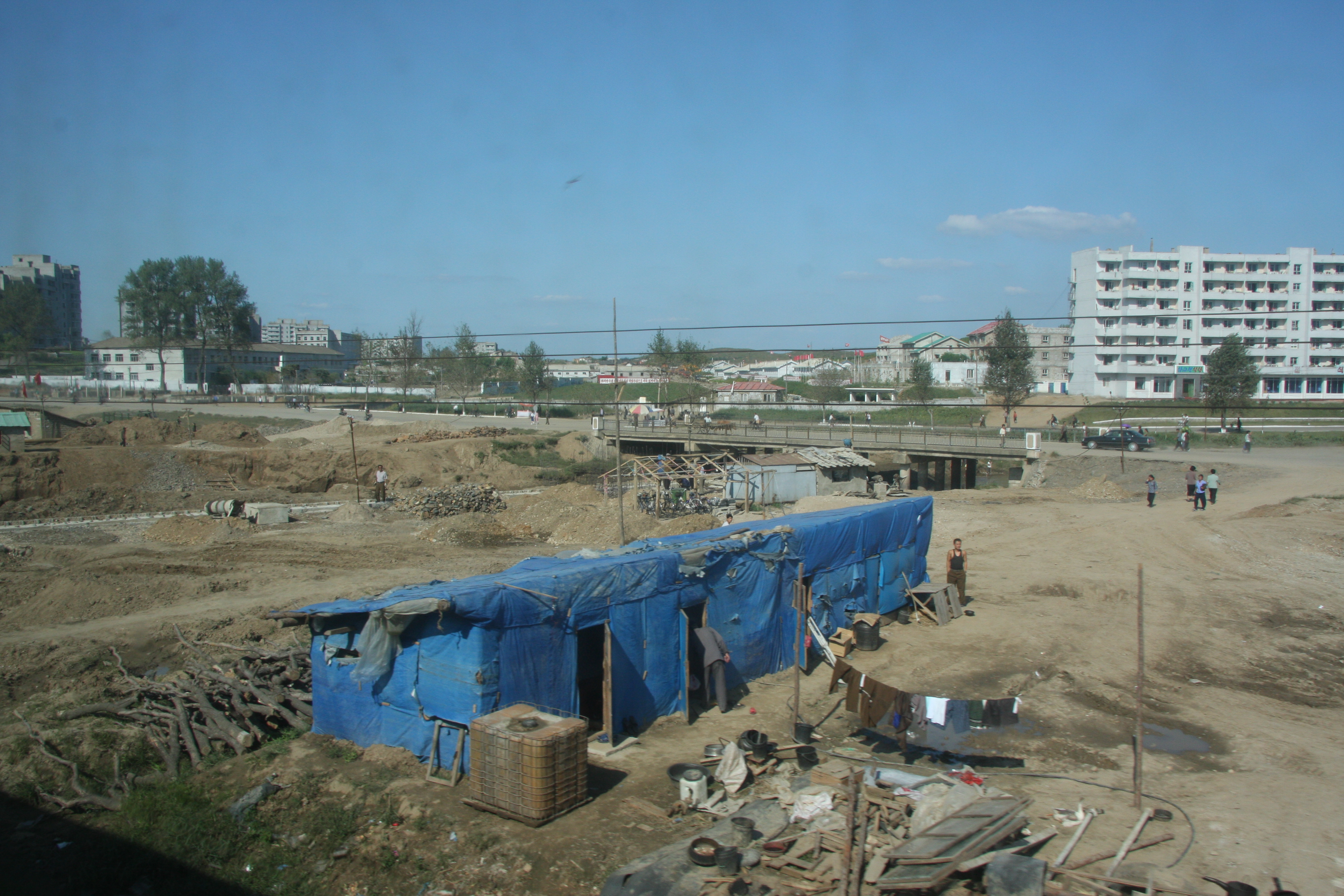 Obviously, there are people living in these cardboard boxes.